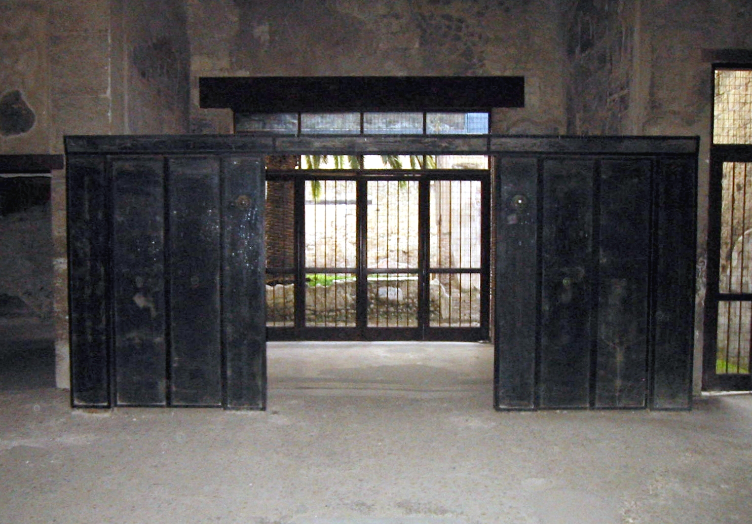 House of the wooden partition (#8) in ancient Herculaneum in Italy.